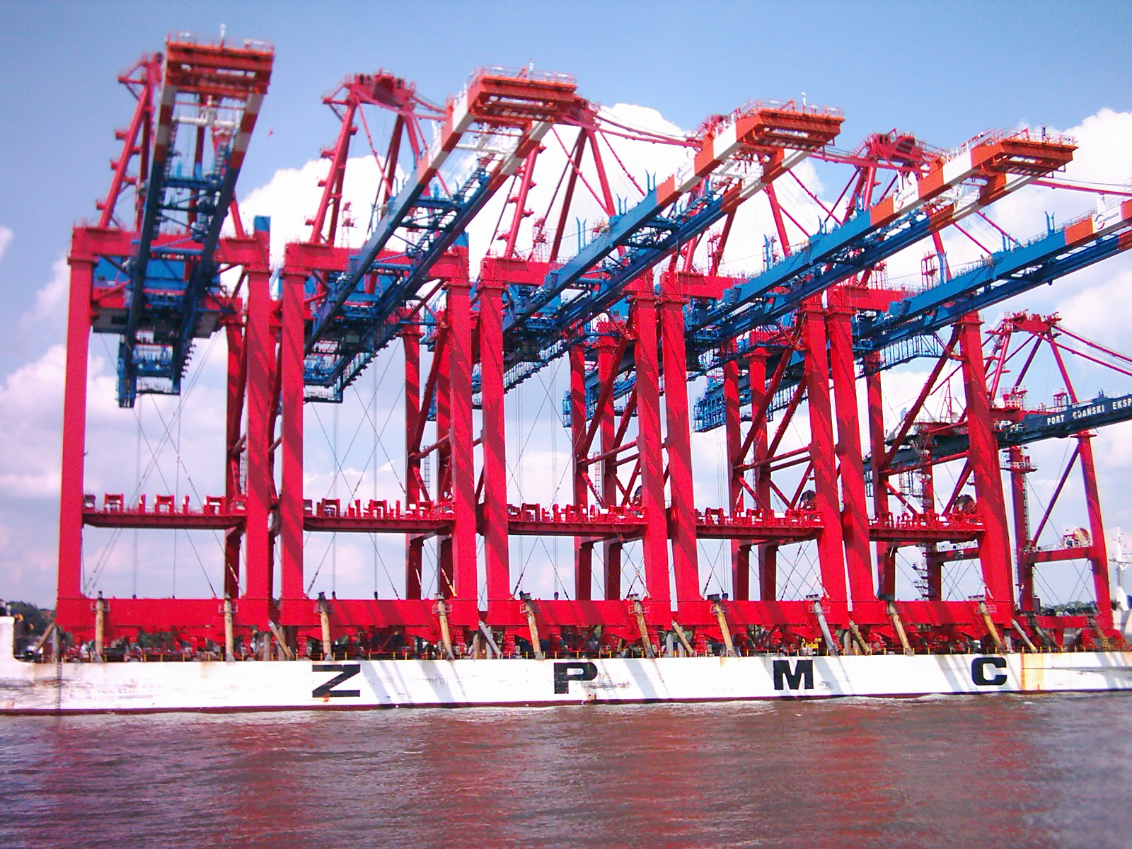 Transport of five gantry cranes for Eurogate Container-Terminal in Hamburg. Elbe, Finkenwerder, Germany. Information about Zhen Hua 20 may be found at IMO 7826180.A ship can change name and flag state through time, but the IMO number remains the same through the hull's entire lifetime. As a result, it can be useful to identify a ship by using the IMO number.